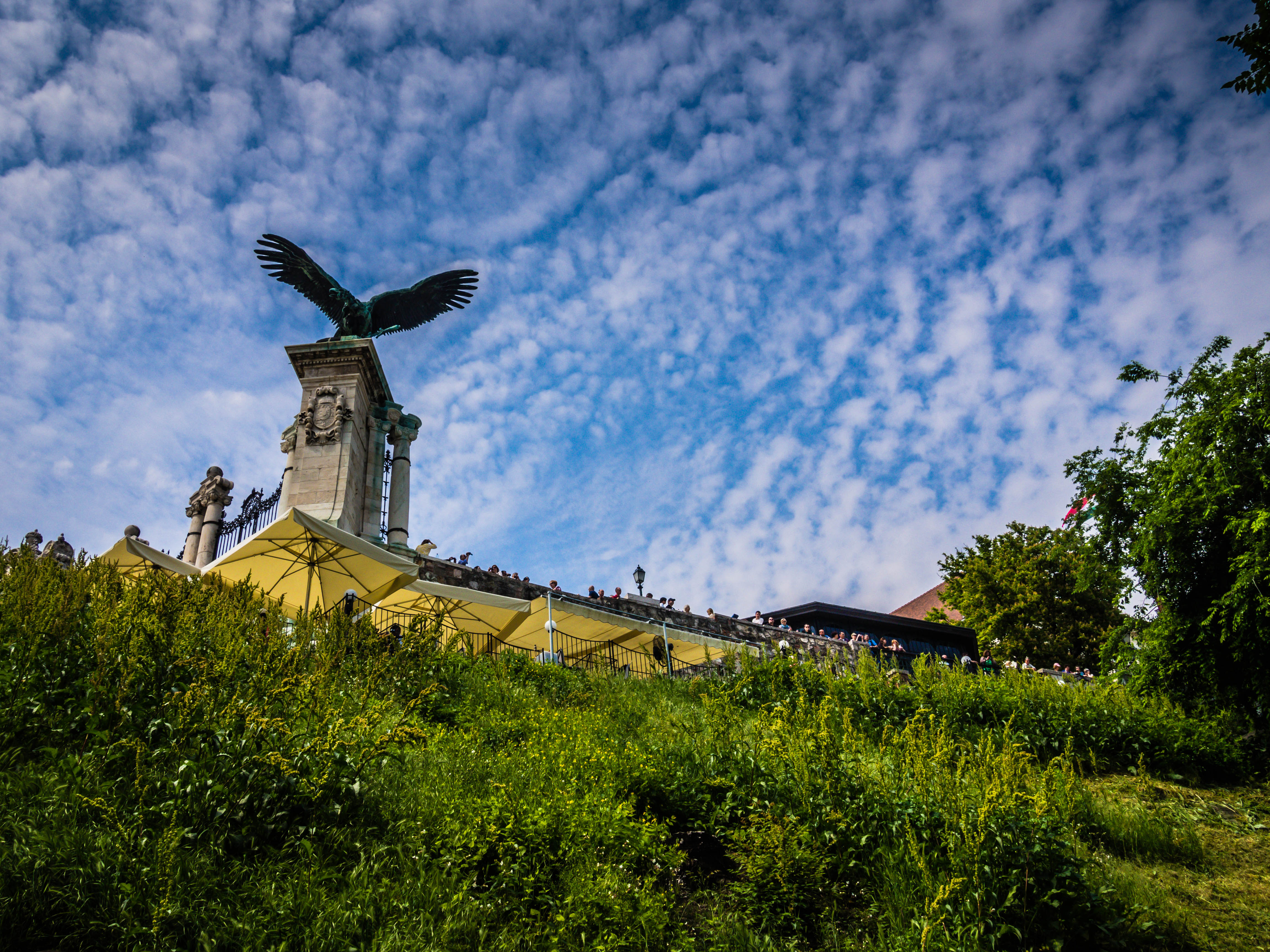 Turul Bird The Turul is the most important bird in the origin myth of the Magyars. It is a divine messenger, and perches on top of the tree of life along with the other spirits of unborn children in the form of birds.